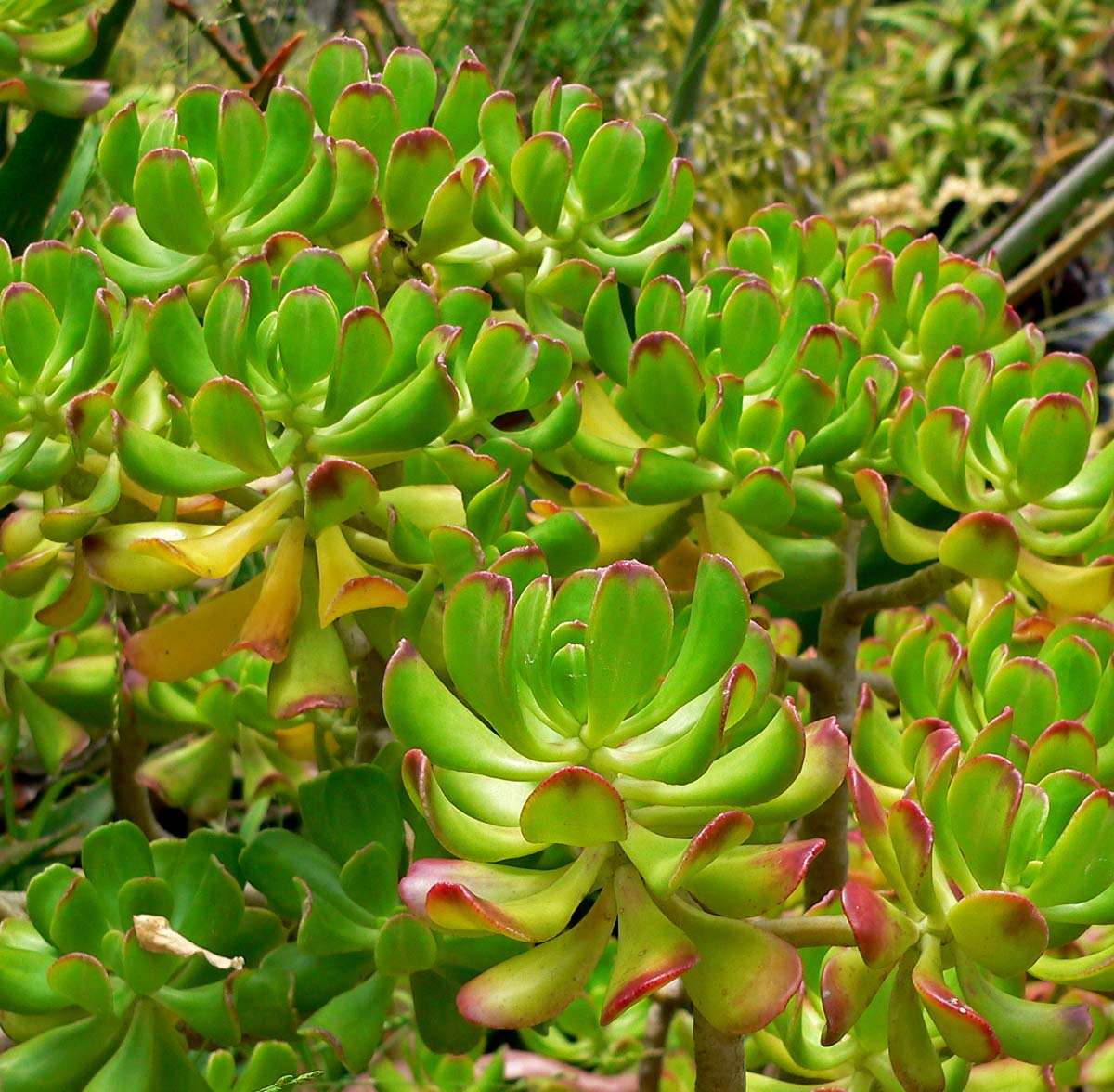 Photo of Sedum dendroideum at the San Francisco Botanical Garden